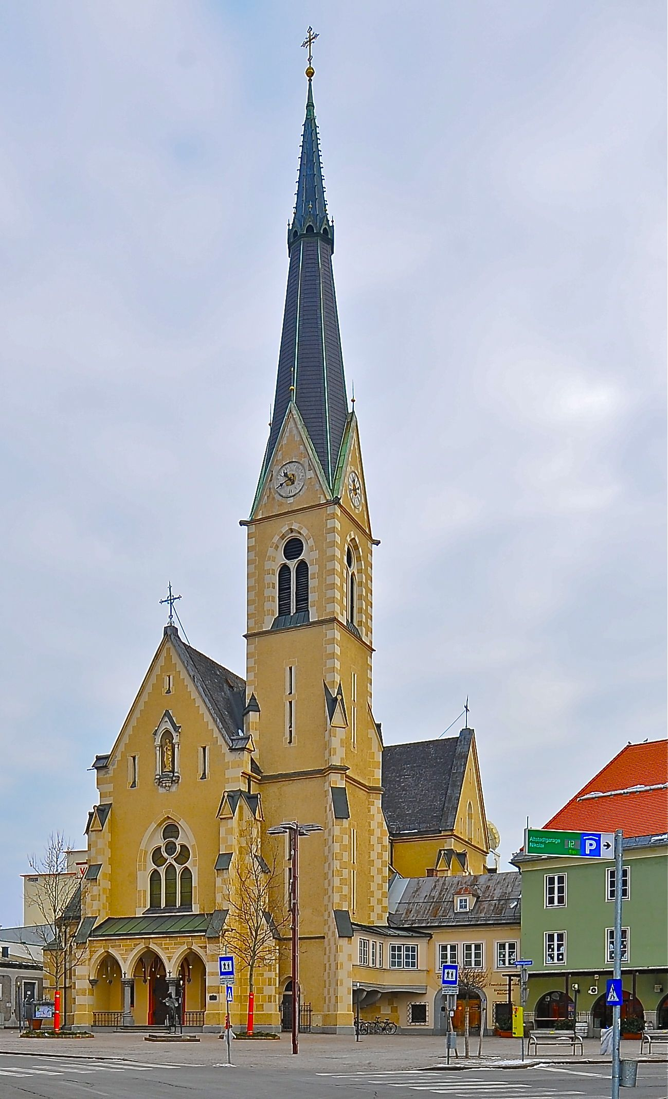 Parish church Saint Nicholas on Nikolaiplatz #1, city of Villach, Carinthia, Austria, EU